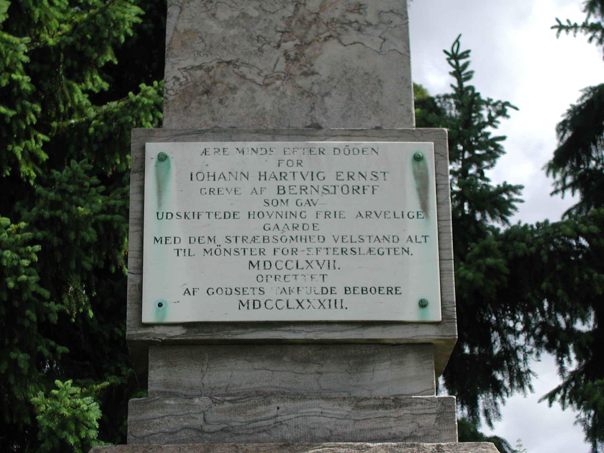 Inscription: HONORARY MEMORIAL AFTER DEATH - TO – JOHANN HARTVIG ERNST – COUNT OF BERNSTORFF – WHO GAVE - SEPARATED INDENTURE FREE HERITABLE FARMS – WITH THEM INDUSTRY PROSPERITY ALL – EXAMPLE TO POSTERITY –1767 – RAISED – BY THE THANKFUL INHABITANTS OF THE ESTATE - 1783